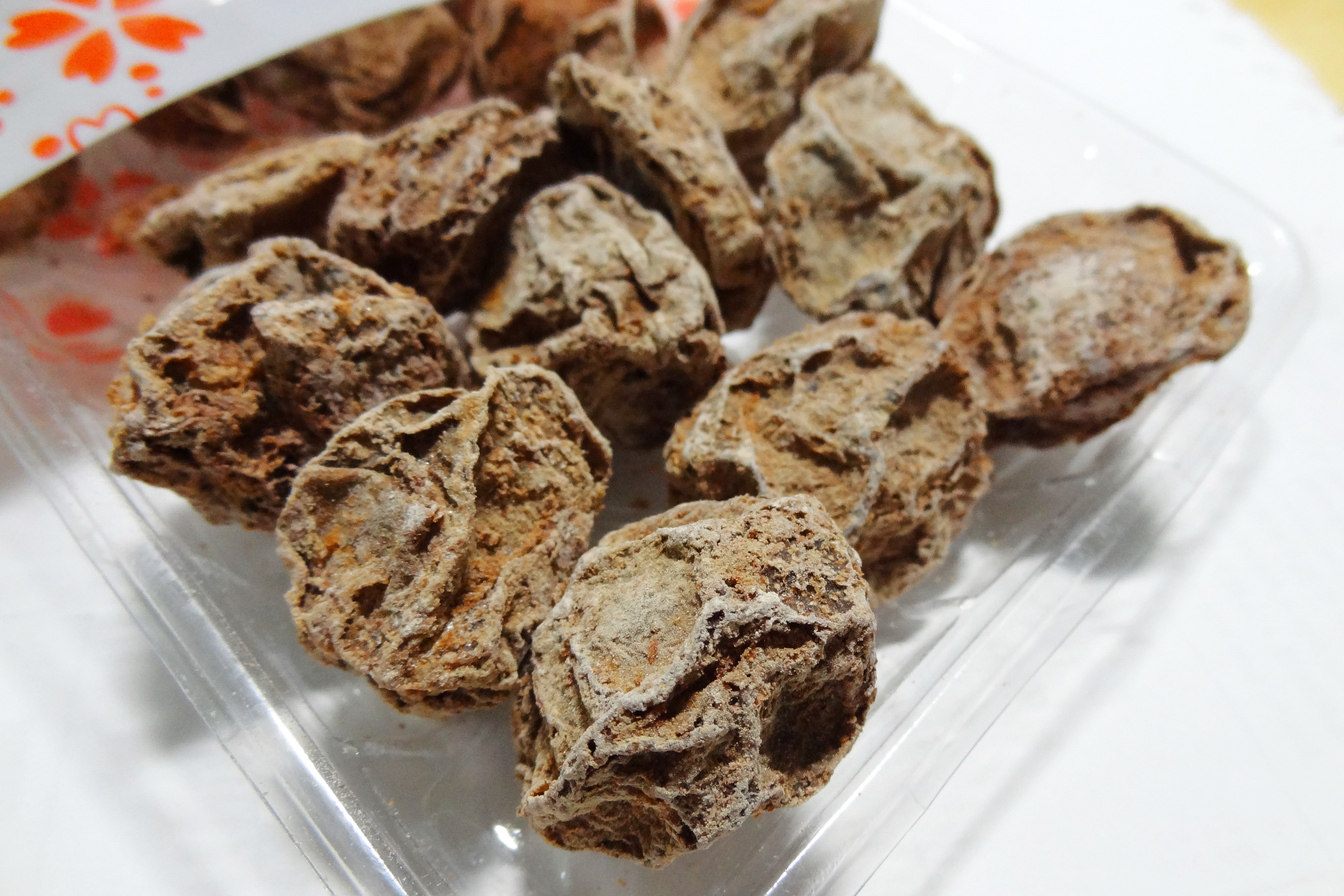 A package of Chinese preserved plum (a kind of snacks)